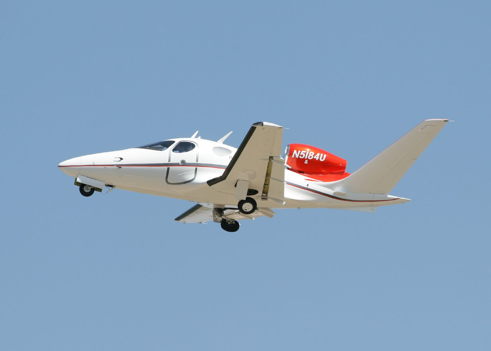 The Eclipse Concept Jet (ECJ), a single-engine four-place aircraft created by Eclipse Aviation for evaluating the emerging single-engine jet marketplace. . (AirVenture 2007)